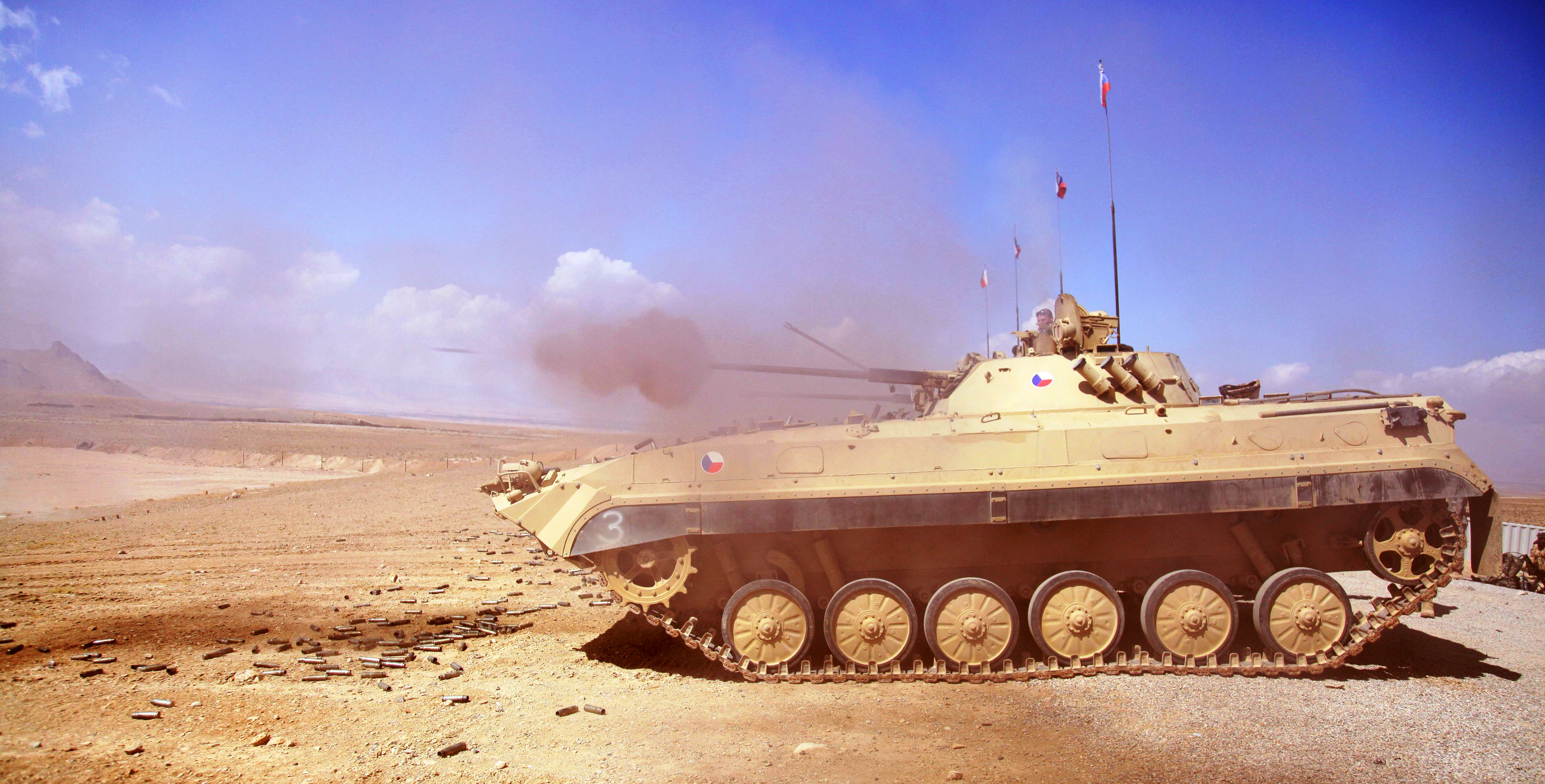 A round leaves the 30mm cannon of a Czech-made BVP2 Infantry Combat Vehicle Sept. 30, 2010, at Forward Operating Base Altimur, Logar province, Afghanistan.